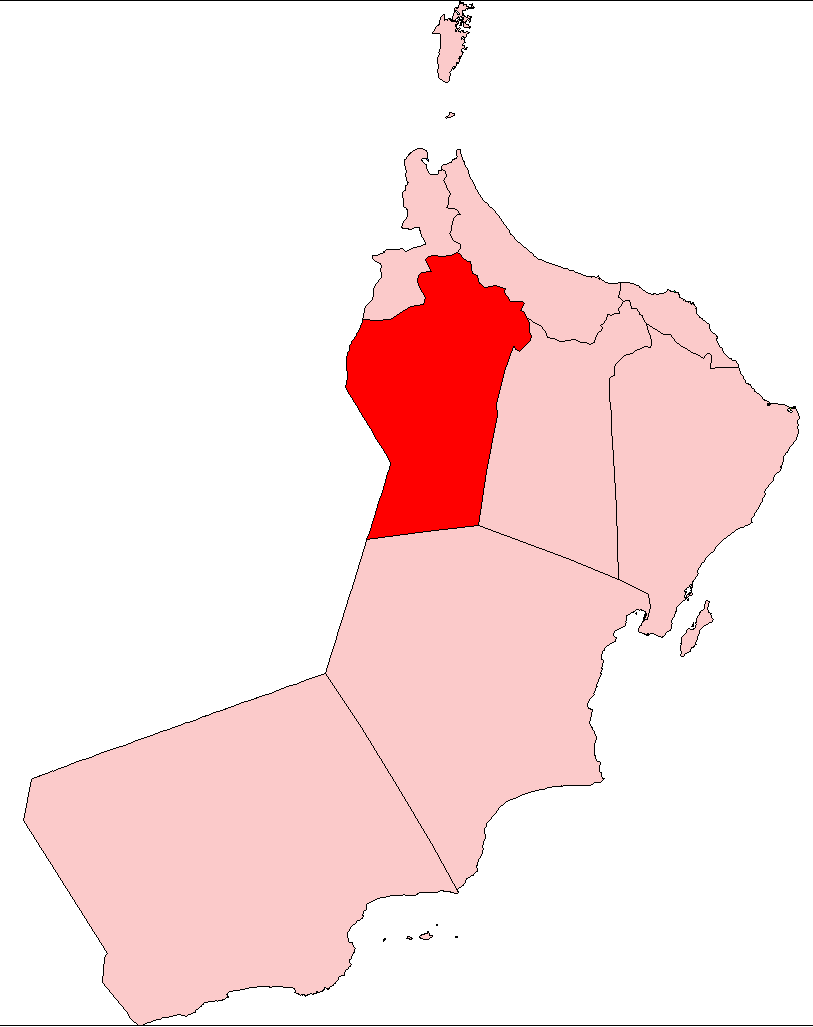 Map of az-Zahirah region, Oman